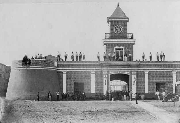 Fort Saint Catherine in Lima - Perú